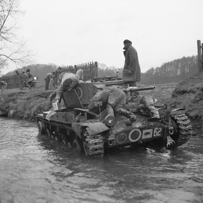 The British Army in the United Kingdom 1939-45 A recovery team works on a Valentine tank of 30th Armoured Brigade, 11th Armoured Division, which broke down in a stream during exercises near Kirkby Lonsdale in Lancashire, 1 April 1942.